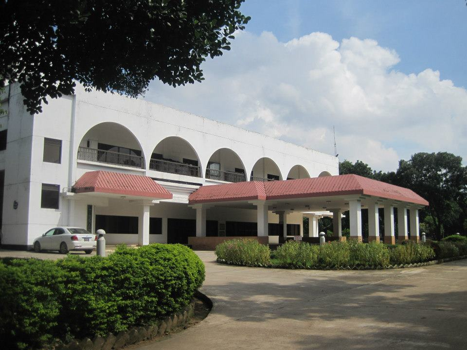 This is photo of Central Library of MIST, Bangladesh.